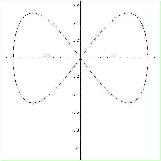 A png of the Lemniscate of Gerono, created by me User:Gene Ward Smith and released to the public domain.